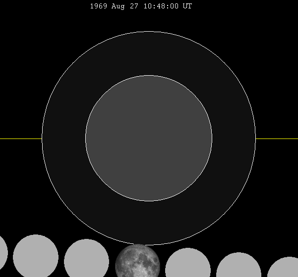 August 1969 lunar eclipse chart of moon's path through the earth's shadow. thumb